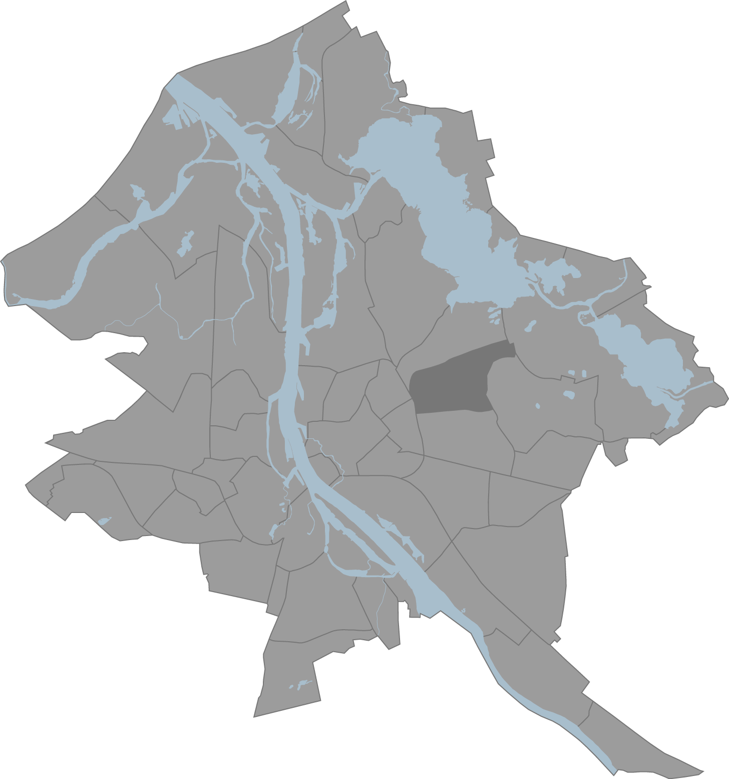 A map of Riga, Latvia with the eponymous commune highlighted